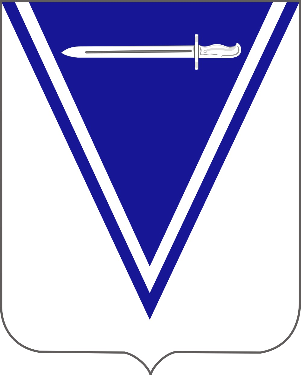 Description/Blazon Shield Argent, a pile cottised Azure, charged with a sword bayonet fesswise of the field. Crest None. Motto RIDENTES VENIMUS (Smiling We Come). Symbolism Shield This Regiment was organized in the Canal Zone in 1916, and served there during World War I guarding the canal. This is symbolized by the cotises of Infantry blue on each side of a pile to represent the canal. Crest None. Background The coat of arms was approved on 2 March 1921.